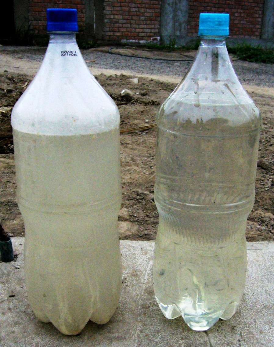 Pre-treated greywater (left bottle) and effluent of the CW which is reused for irrigation of crops (right bottle). Photo by Heike Hoffmann, Peru.